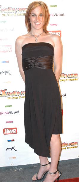 Heather Presley at Listeners Choice Awards, December 2 2006